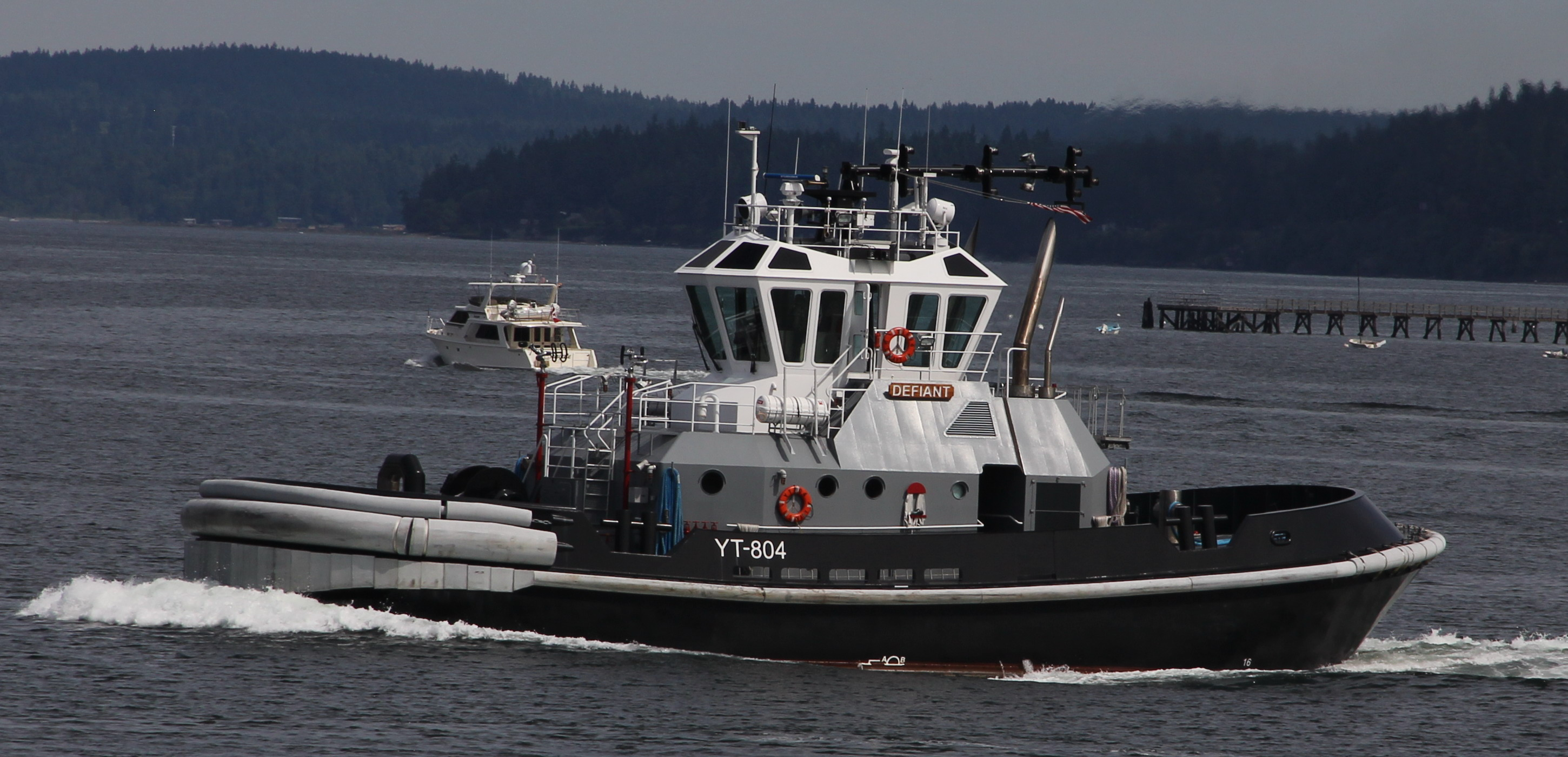 USS Defiant (YT-804) in Rich Passage returning to Bremerton after escorting.